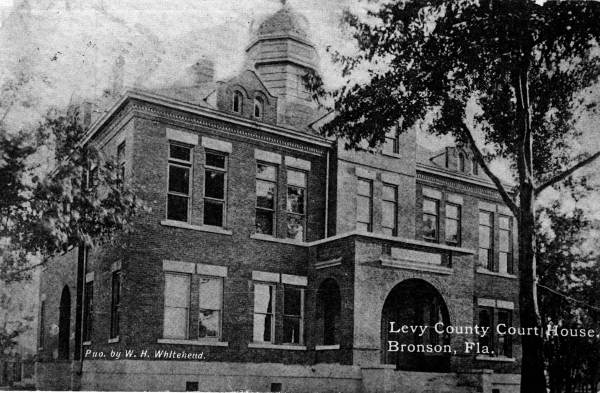 Courthouse in Bronson, Levy County, Florida, circa 1907